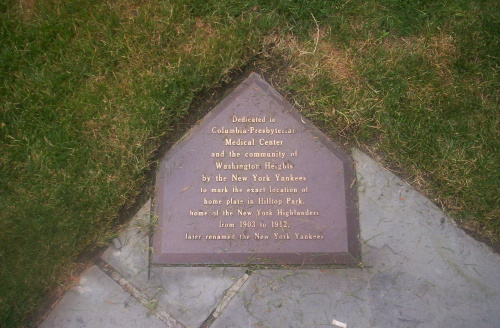 17:52, 4 October 2005 . . Eliyahu5733 . . 500×328 (102,833 bytes) (Close-up of the plaque marking the former location of Hilltop Park's home plate. Photo taken by John W. Leys on 27 July 2005)